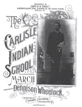 "The Carlisle Indian School March" composed by Dennison Wheelock, dedicated to Capt. R. H. Pratt. Cover sheet to music. Other information No.